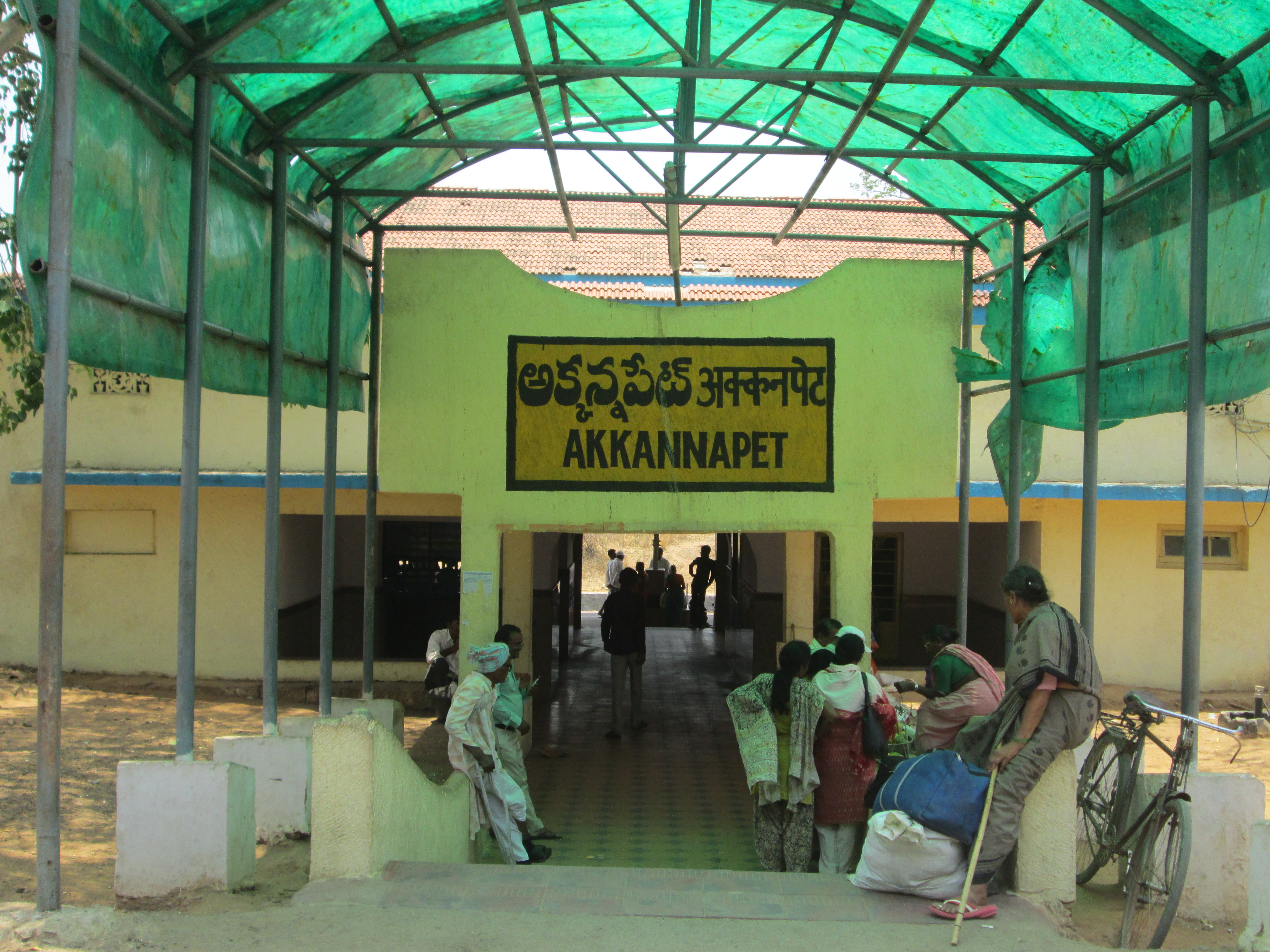 అక్కన్నపేట్